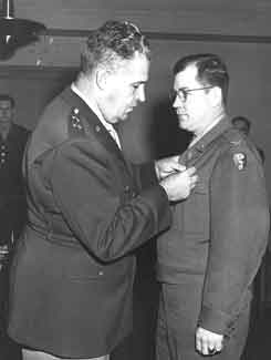 Colonel John Landsdale (right) is awarded the Legion of Merit by Major General Leslie R. Groves, Jr., (left) the director of the Manhattan Project